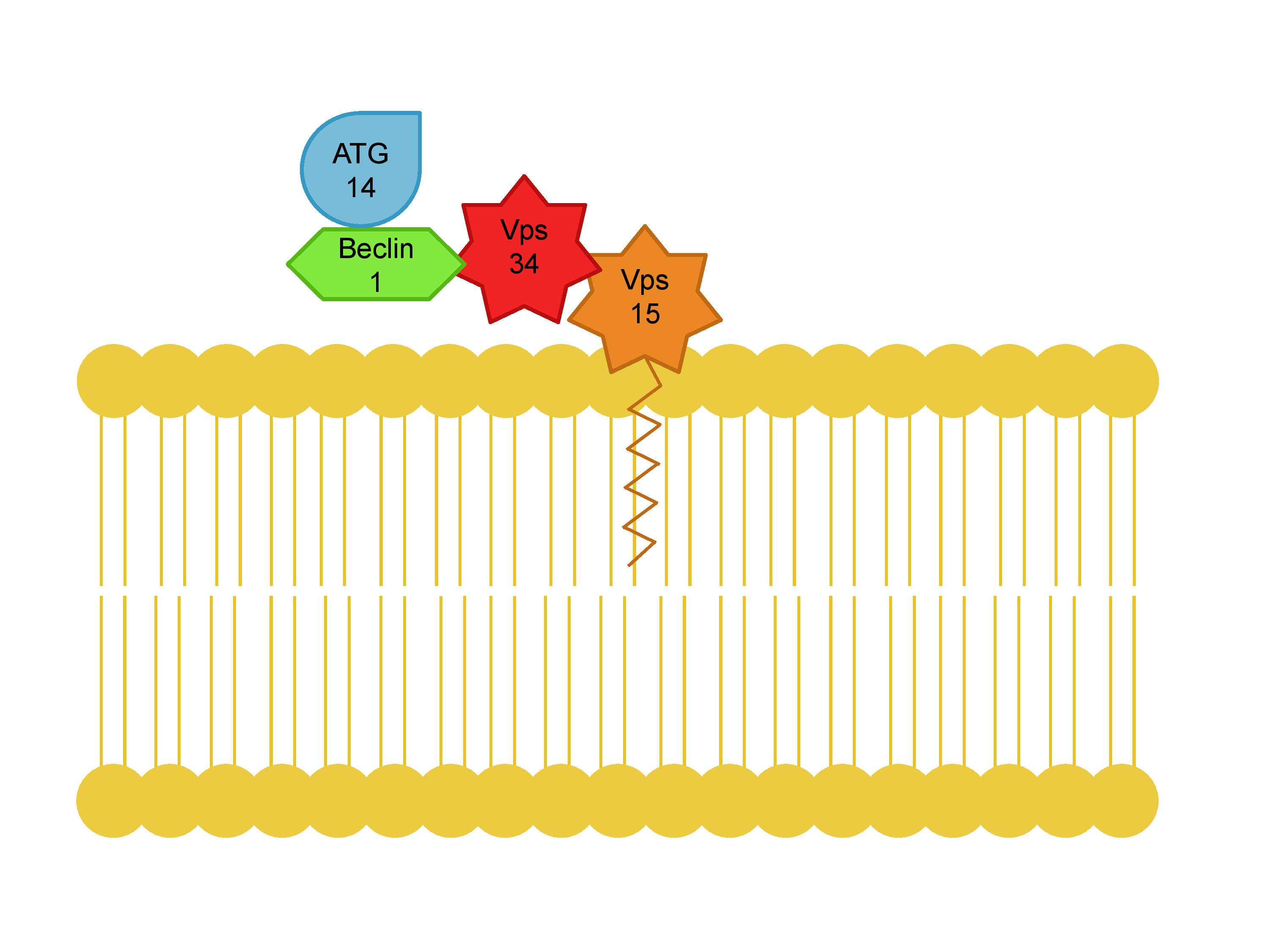 Phosphoinositide-3-kinase class III complex.